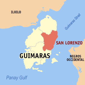 Map of Guimaras showing the location of San Lorenzo